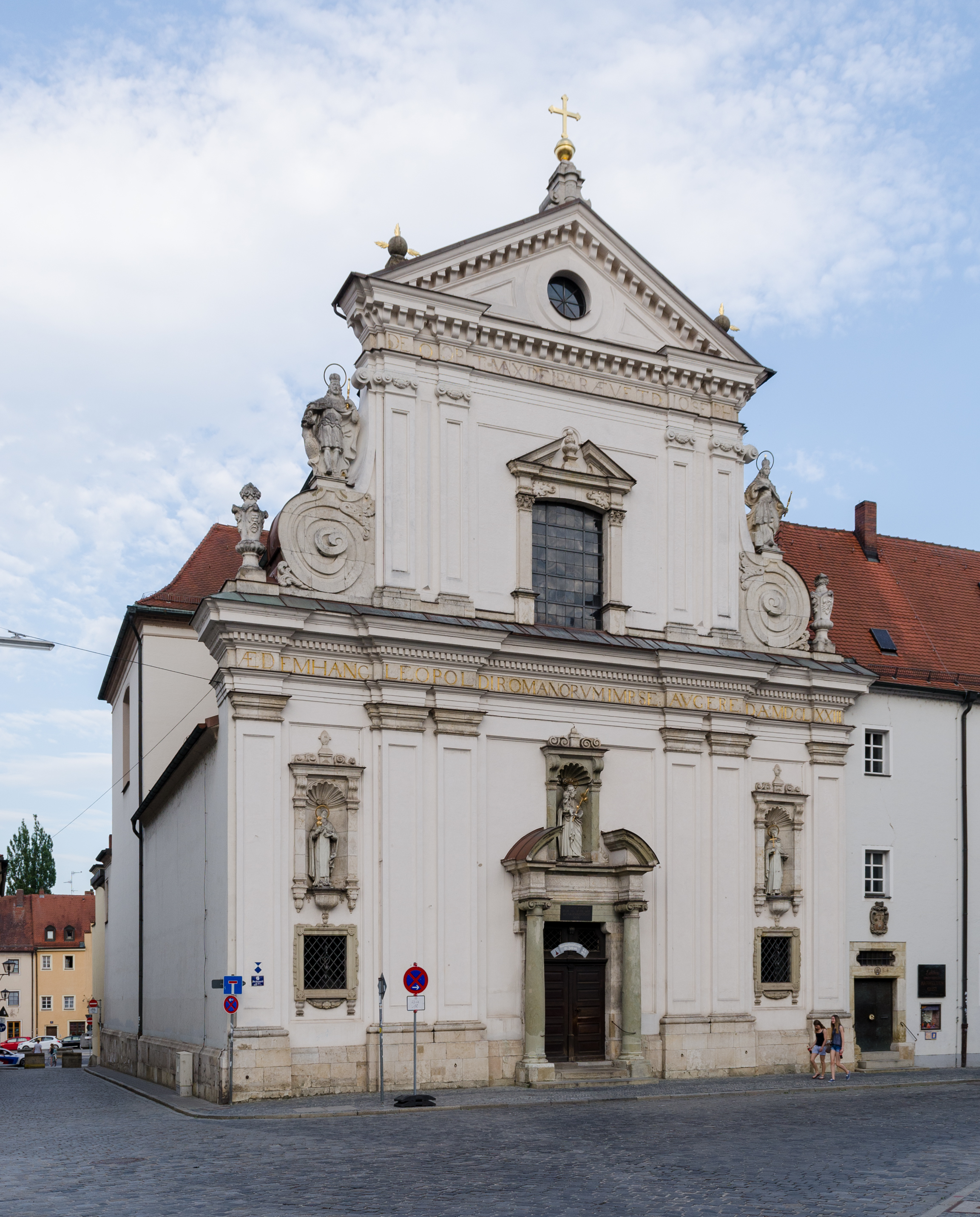 Regensburg (Bavaria, Germany) – inner city – Carmelites' Church of Saint Joseph